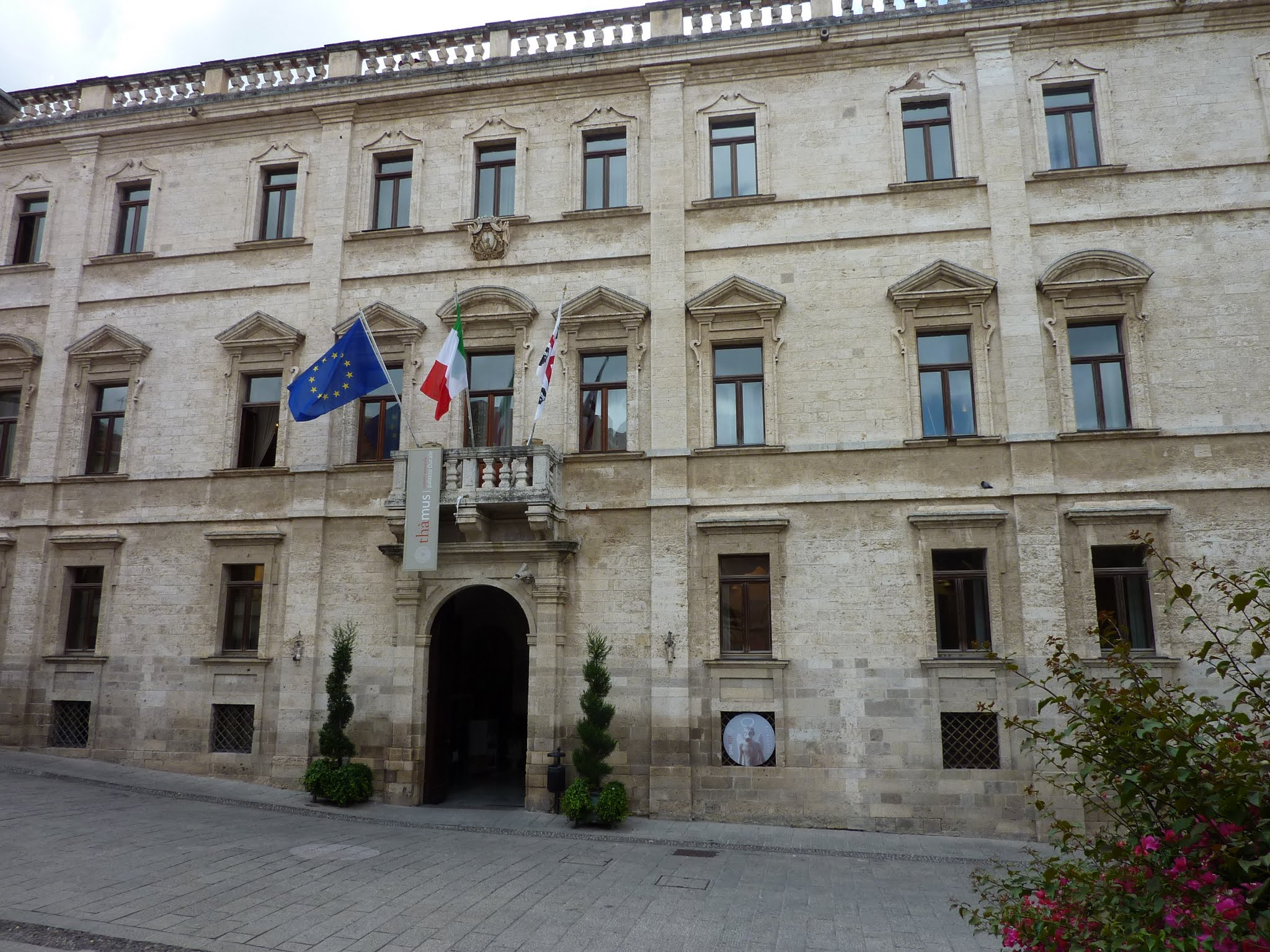 Palazzo Ducale in Sassari